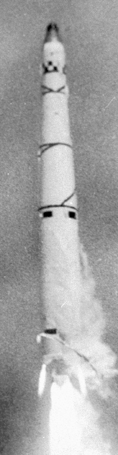 Launch of the Thor Agena A rocket with Discoverer 11 satellite (Corona KH-1 type), 15 April 1960.